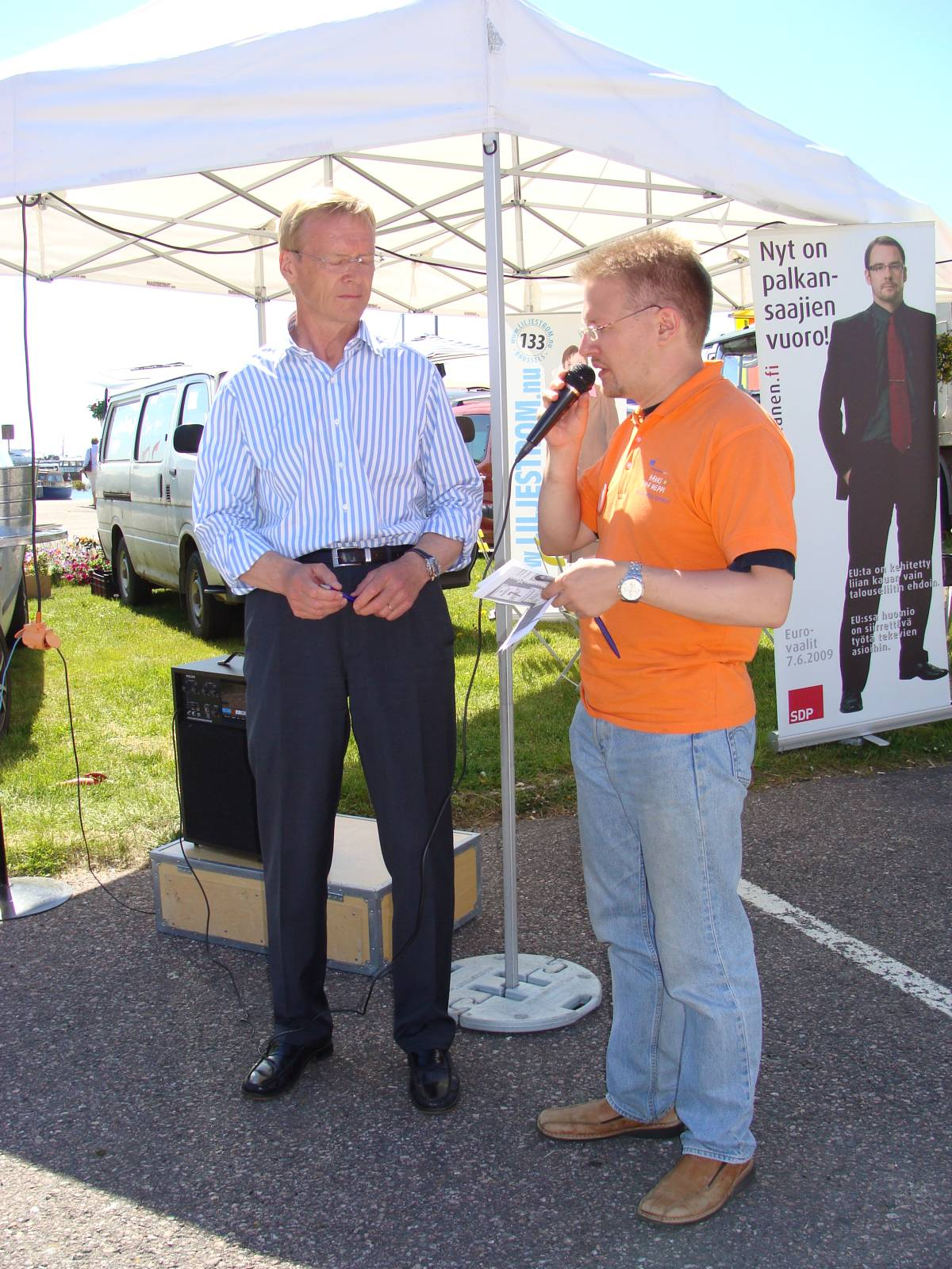 Rally driver and politician (National Coalition Party) Ari Vatanen in Hanko